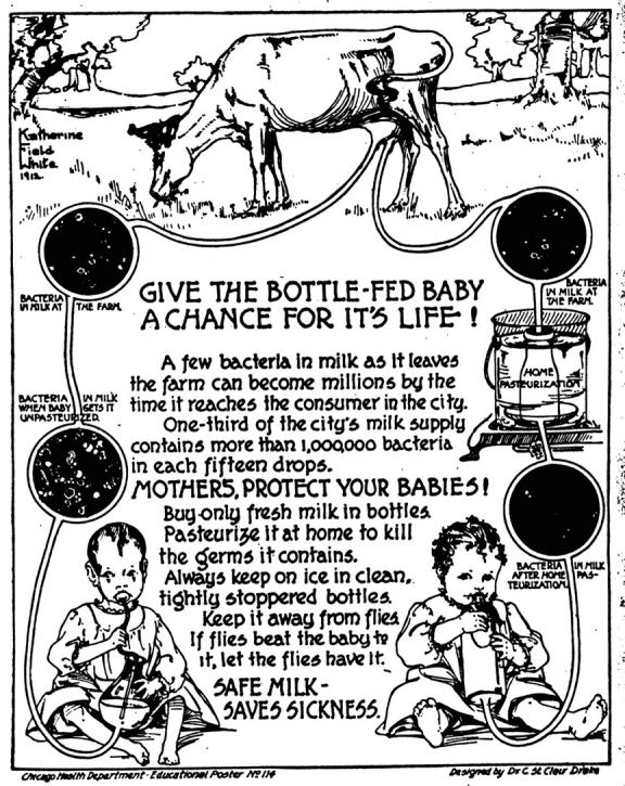 A Chicago Department of Health poster explains to mothers how to make cows' milk safer for bottle-fed babies. Source: Bulletin: Chicago School of Sanitary Instruction (August 31, 1912).15. From S. T. Rorer, “The Proper Food for a Child in Summer,” Ladies’ Home Journal 17 (July1900): 26.